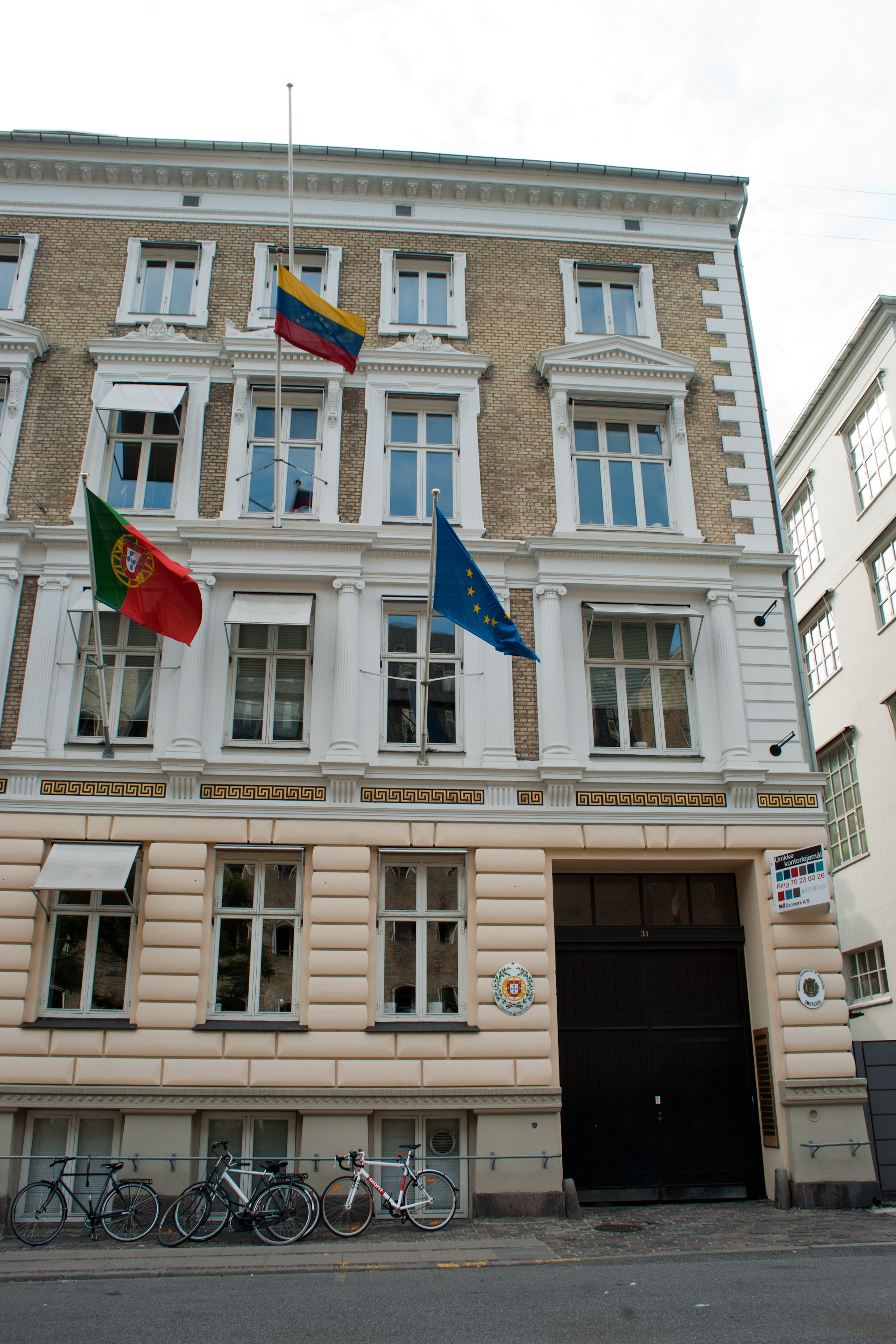 Embassies of Portugal and Venezuela in Copenhagen (Denmark).